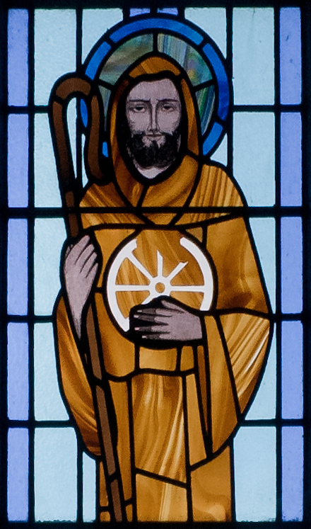 Detail of the stained glass window depicting St. Jarlath